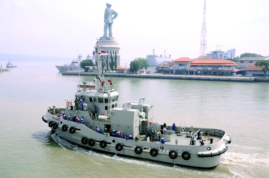 TD Malabar Tug Boat